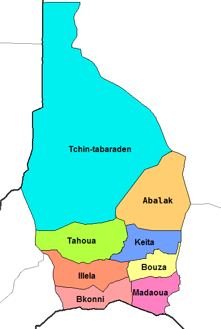 Crop of Tahoua_Region_departments.png